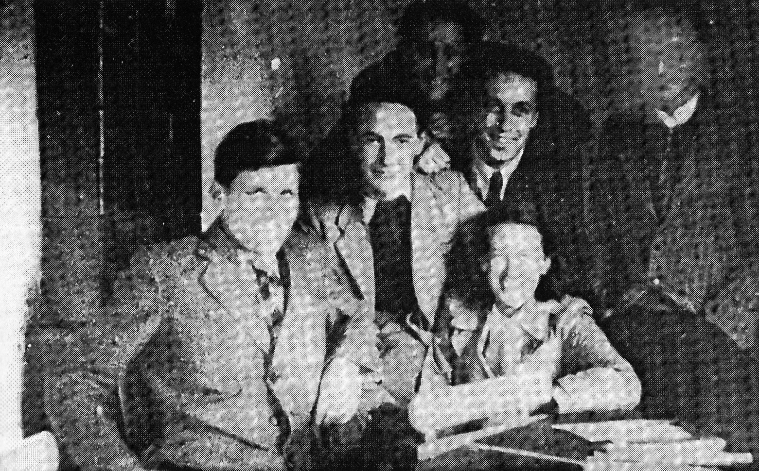 Fotografija novomeških dijakov, ki so se upirali fašizmu.